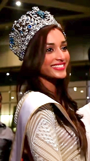 Srinidhi Shetty homecoming.